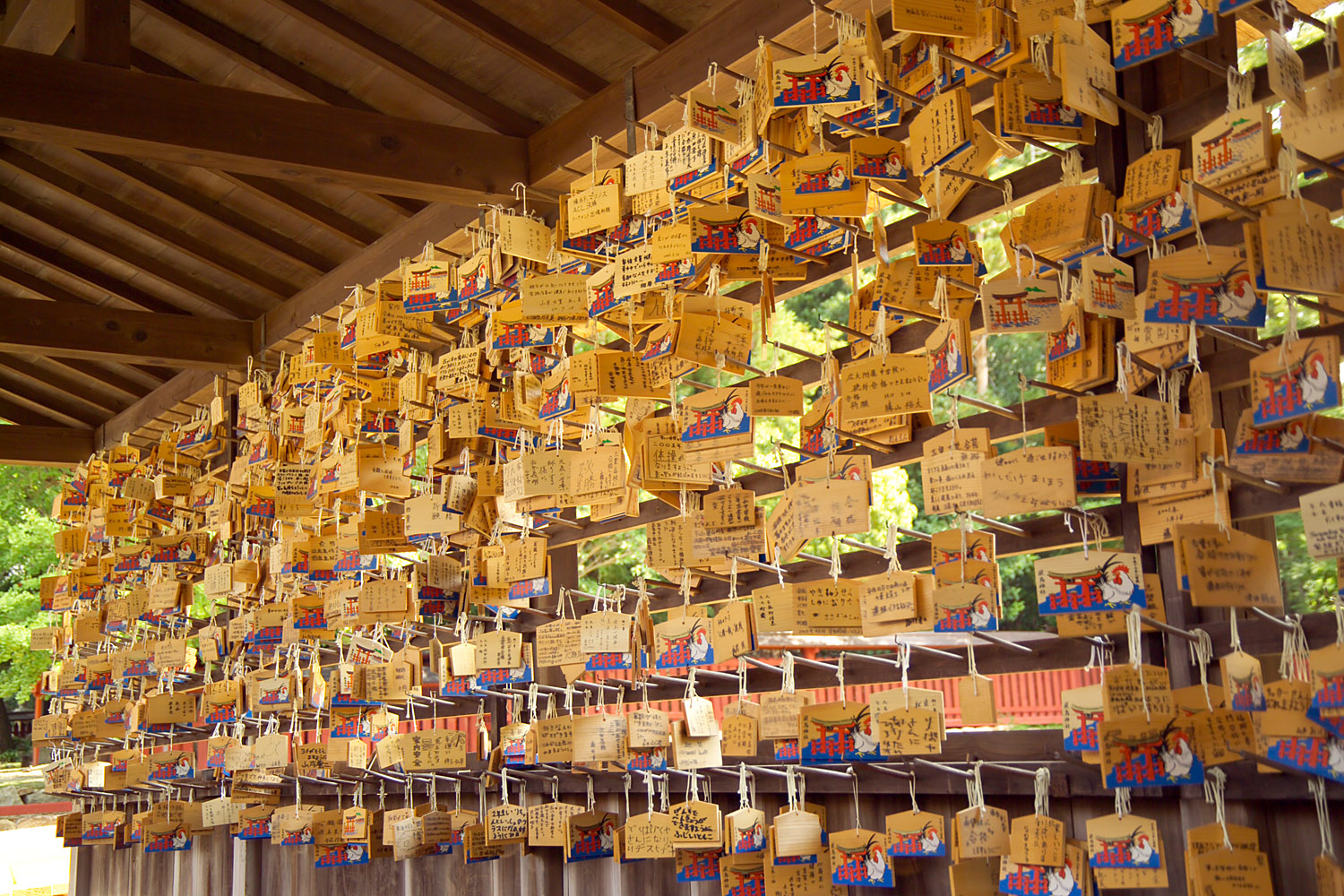 Ema at Itsukushima Shrine, Miyajima, Hiroshima Prefecture, Japan. Year of the Rooster. I took the photo.